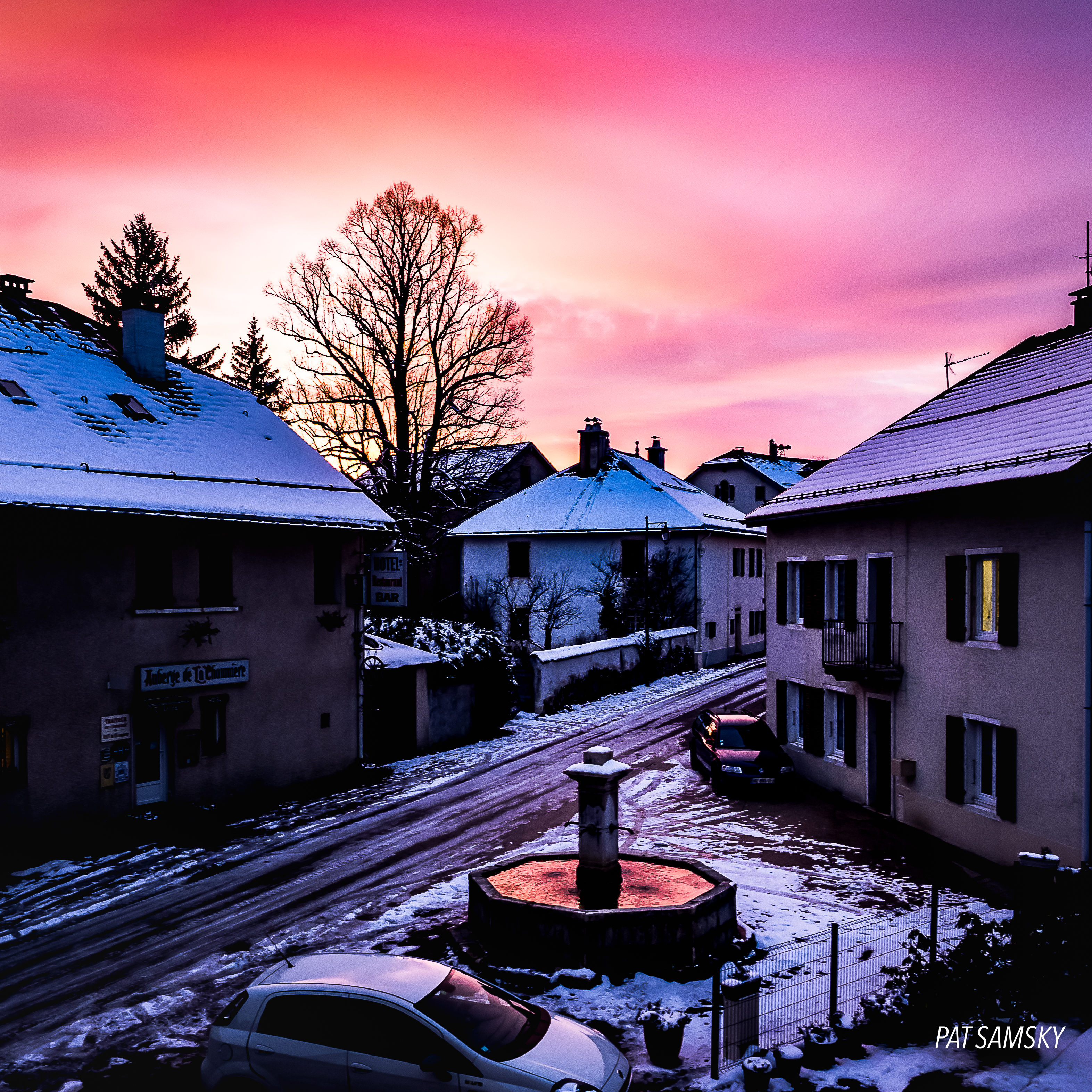 Les Bouchoux